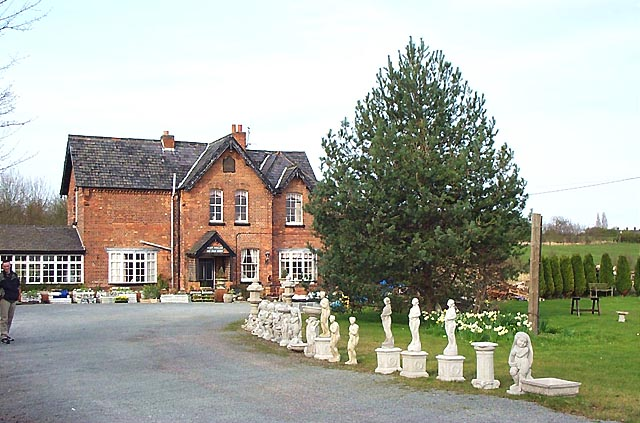 Station House, West Hallam. The Great Northern Railway (GNR) cut an east-west line through Stanley Village in 1876/7 and the Stanley Station opened in 1878. Confusion with another GNR station of the same name in Yorkshire soon resulted in Derbyshire's station being renamed "West Hallam for Dale Abbey". The former station house is now a garden centre/nursery.